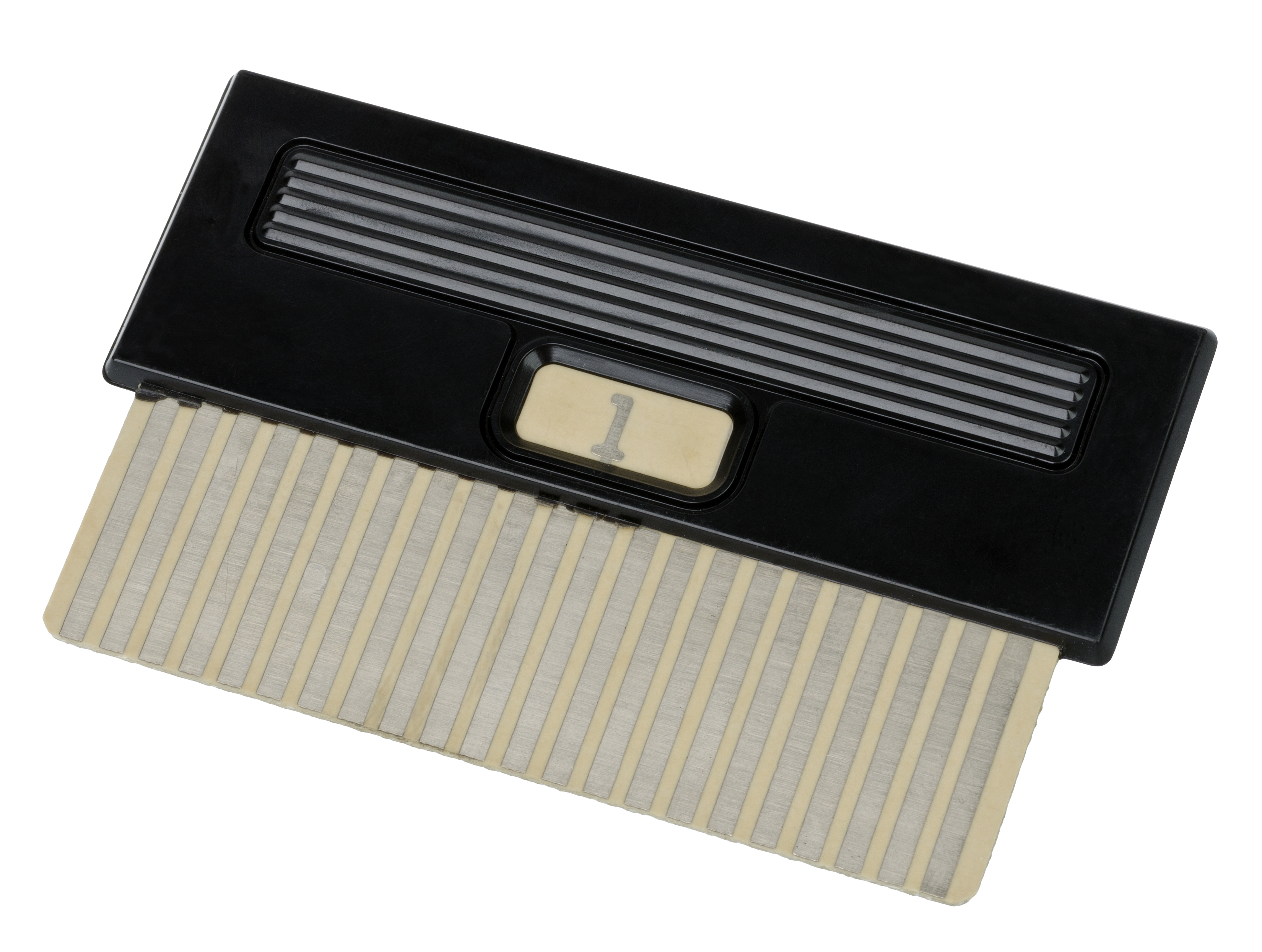 A jumper card for the Magnavox Odyssey, the very first video game console. Released in 1972, the Odyssey was a simple and crude device that generated shapes on the television that could be controlled and interacted with. It only produced black and white graphics and had no sound, but was limited to only using discreet components like diodes and transistors. It was replaced in 1975 with the Magnavox Odyssey series, a line of dedicated Pong consoles.